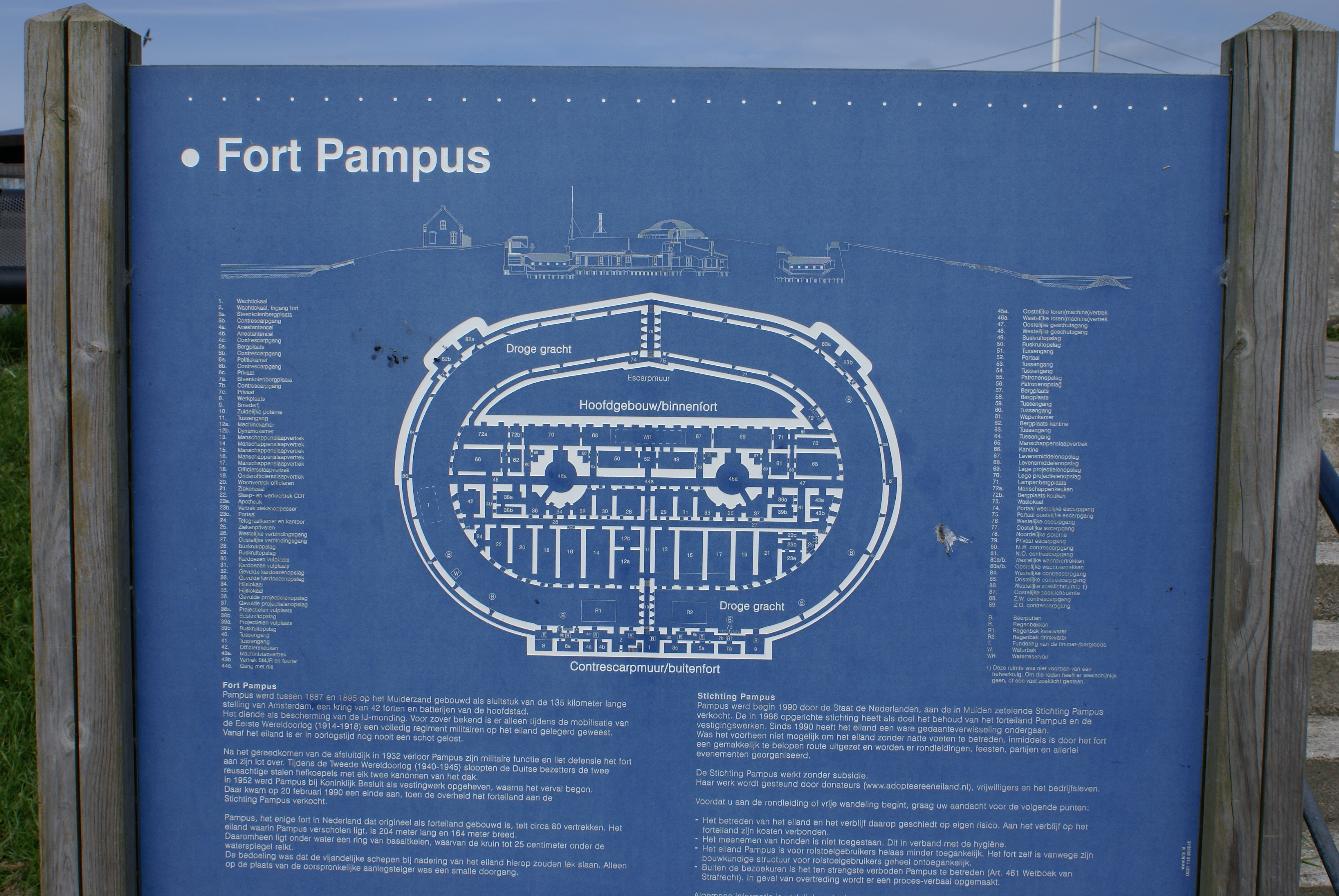 A map of the dungeon on fort Pampus.